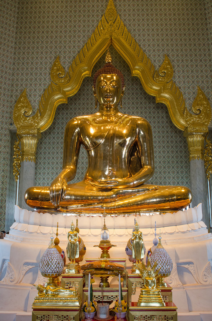 The Golden Buddha at Wat Traimit.